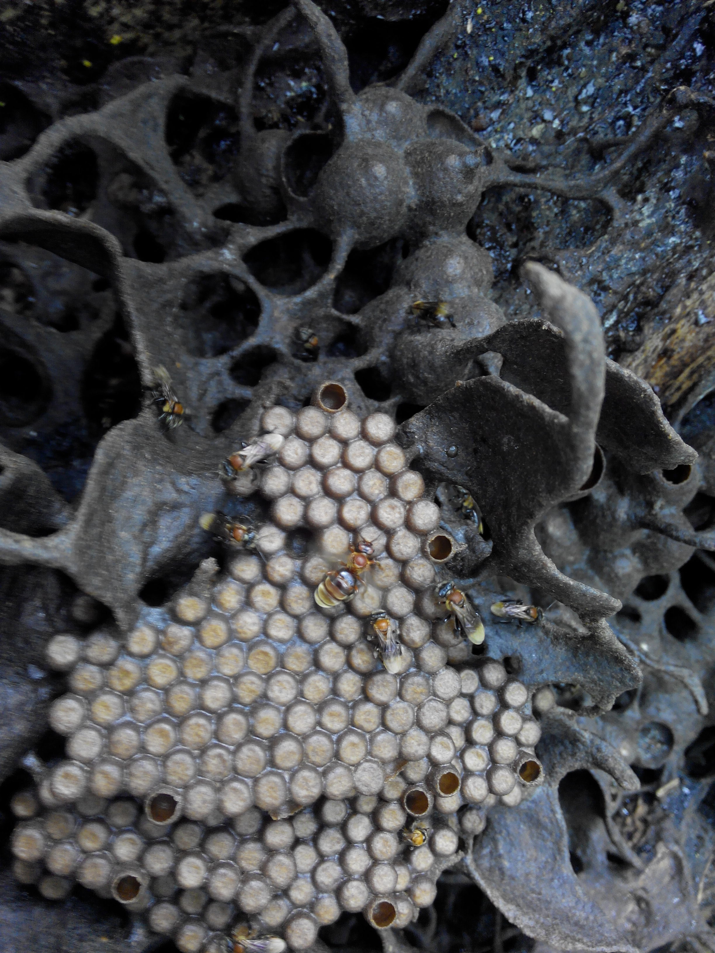 Stingless bee queen Heterotrigona thoracica